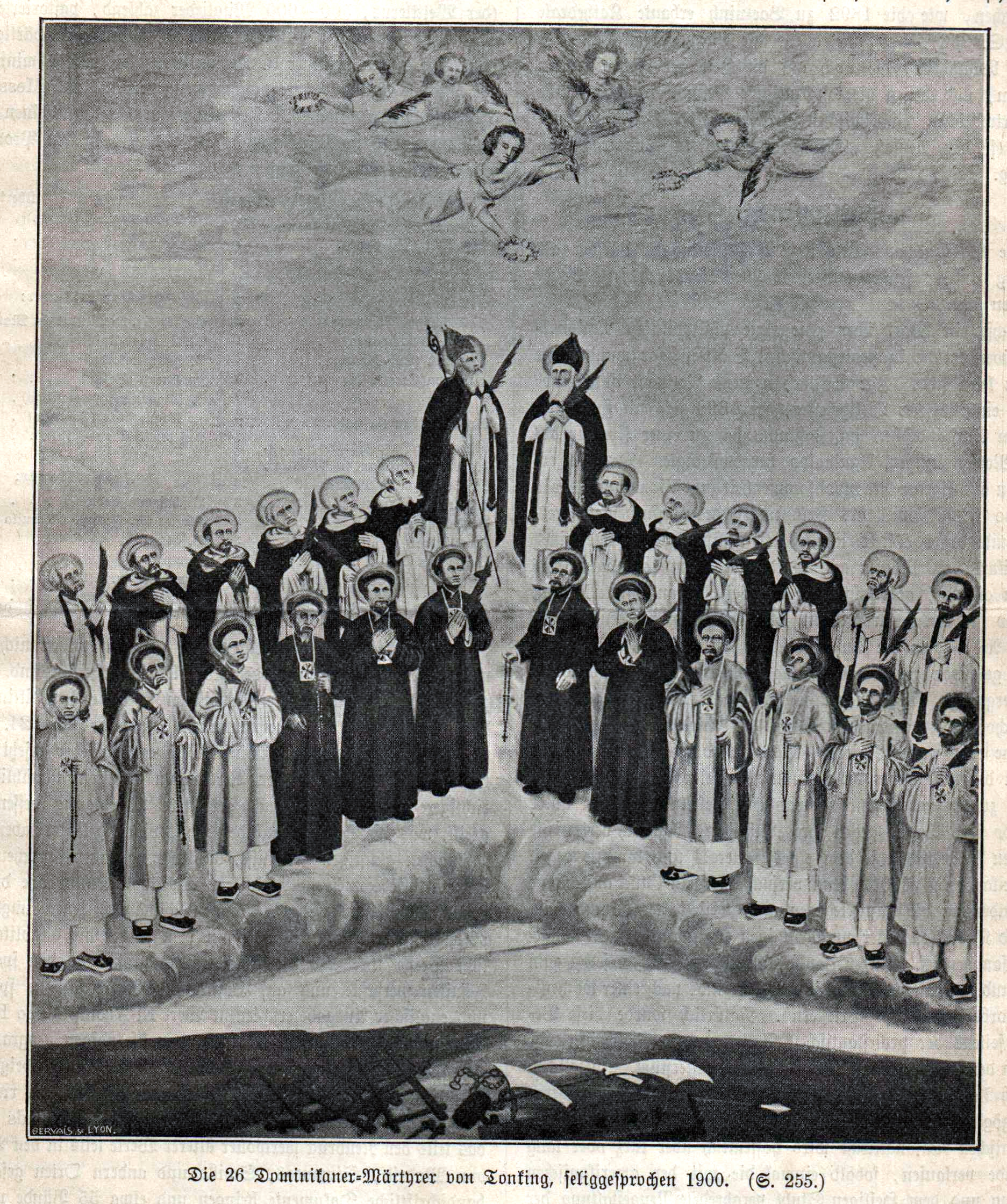 Picture of 26 Dominkan Martyrs from Tonking, beatified in 1900